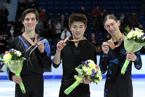 2012 World Junior Men Medalists(Yan Han, Joshua Farris, Jason Brown)